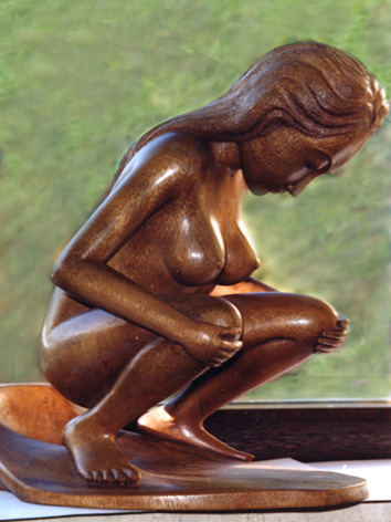 Picture of wooden statuette in squatting position, bought in Bali, Bron; own work. Date: 1988 Author: M. Keijzer-Landkroon, midwife